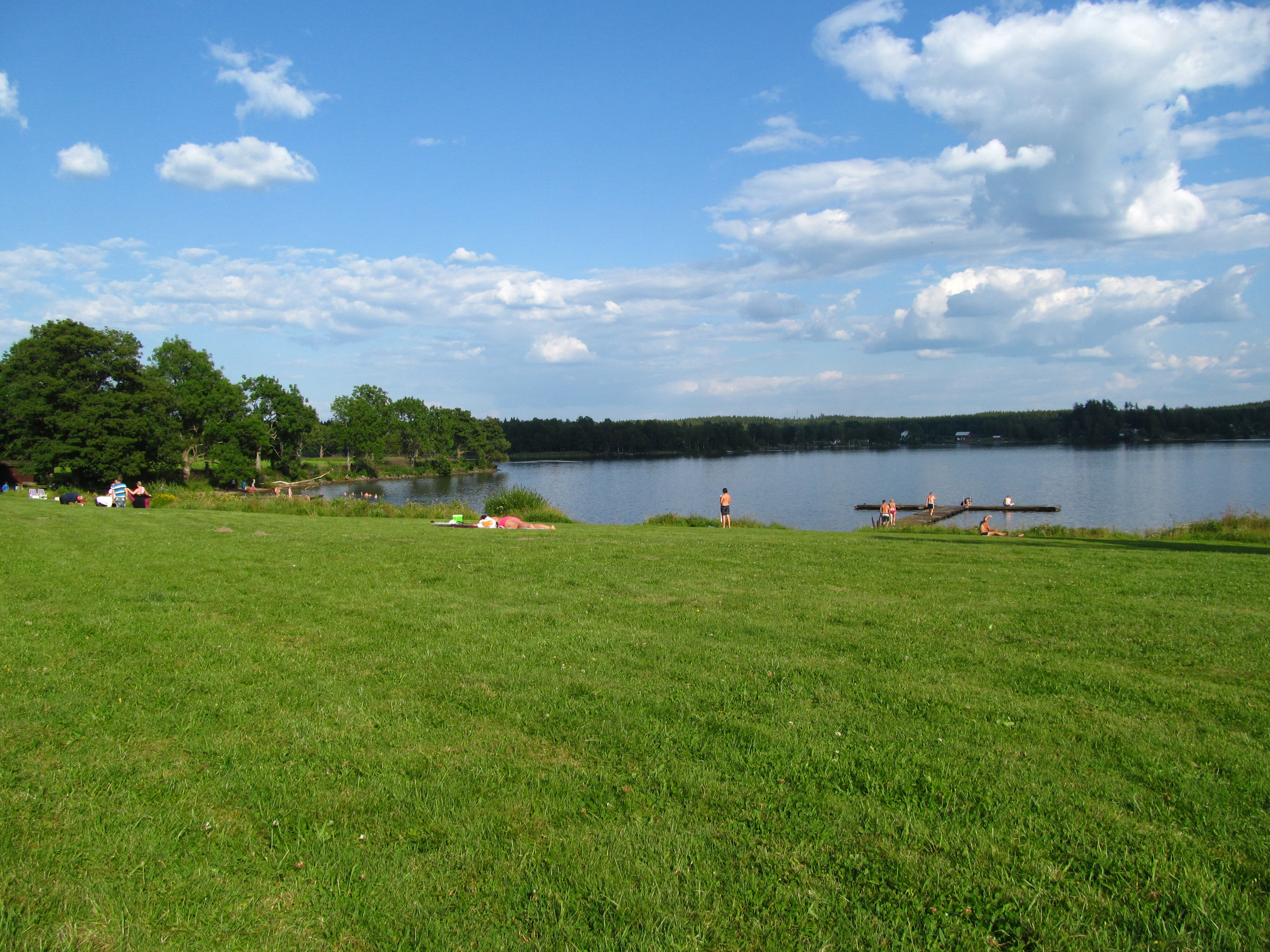 Public beach in lake Säm, Herrljunga municipality. Close nearby is the ruins of the old Norra Säm church.